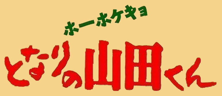 Hōhokekyo Tonari no Yamada-kun (My Neighbors the Yamadas) title, from Japanese DVD disc.